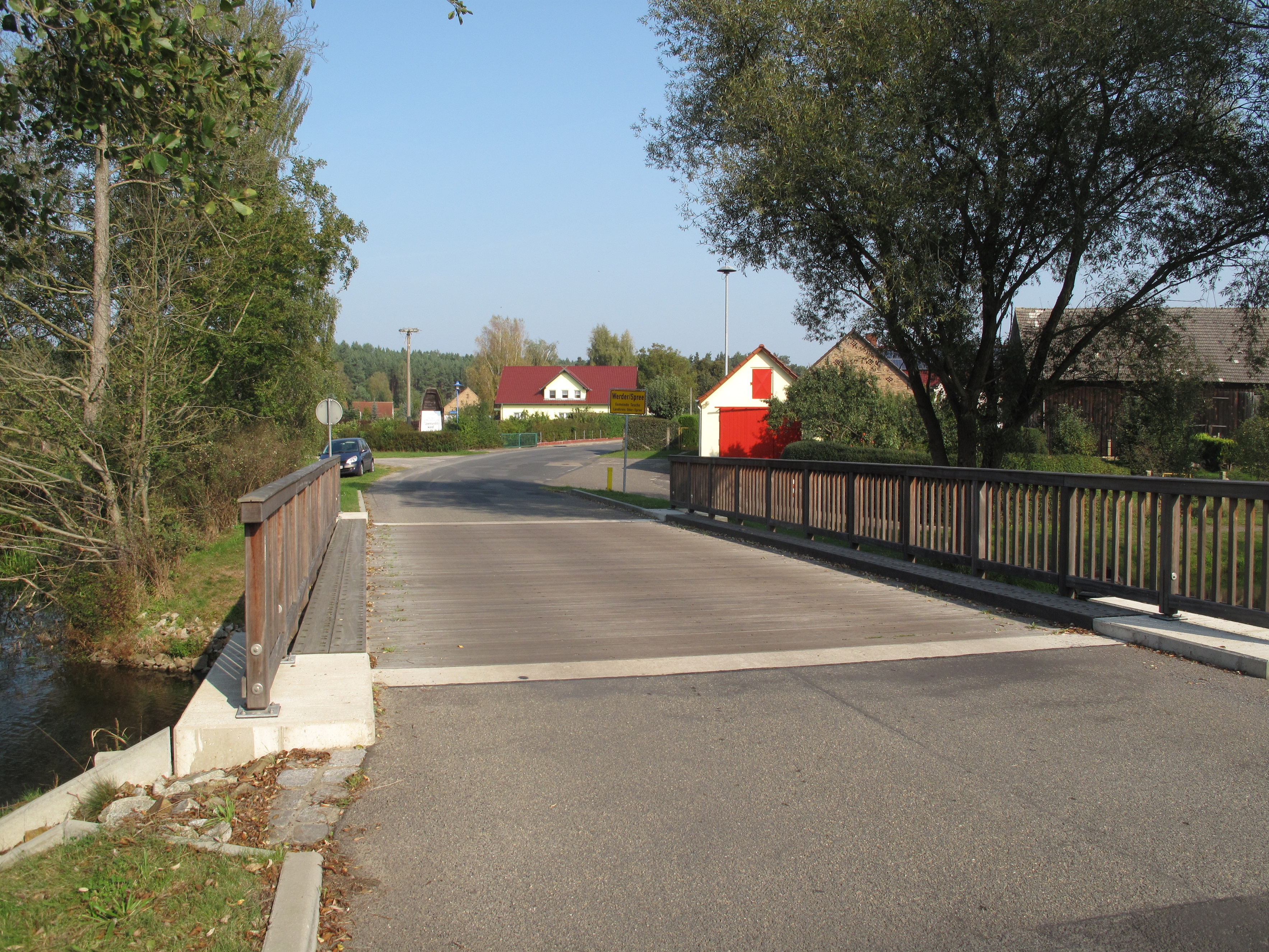 Bridge over a side arm of the river Spree in the village Werder, a part of the municipality Tauche in the District Oder-Spree, Brandenburg, Germany. The street-, bike- and footbridge was built in 2012 and is part of the Spreeradweg (Spree-cycling-route). It is situated about 100 meters in the north of the Spreebrücke Werder.